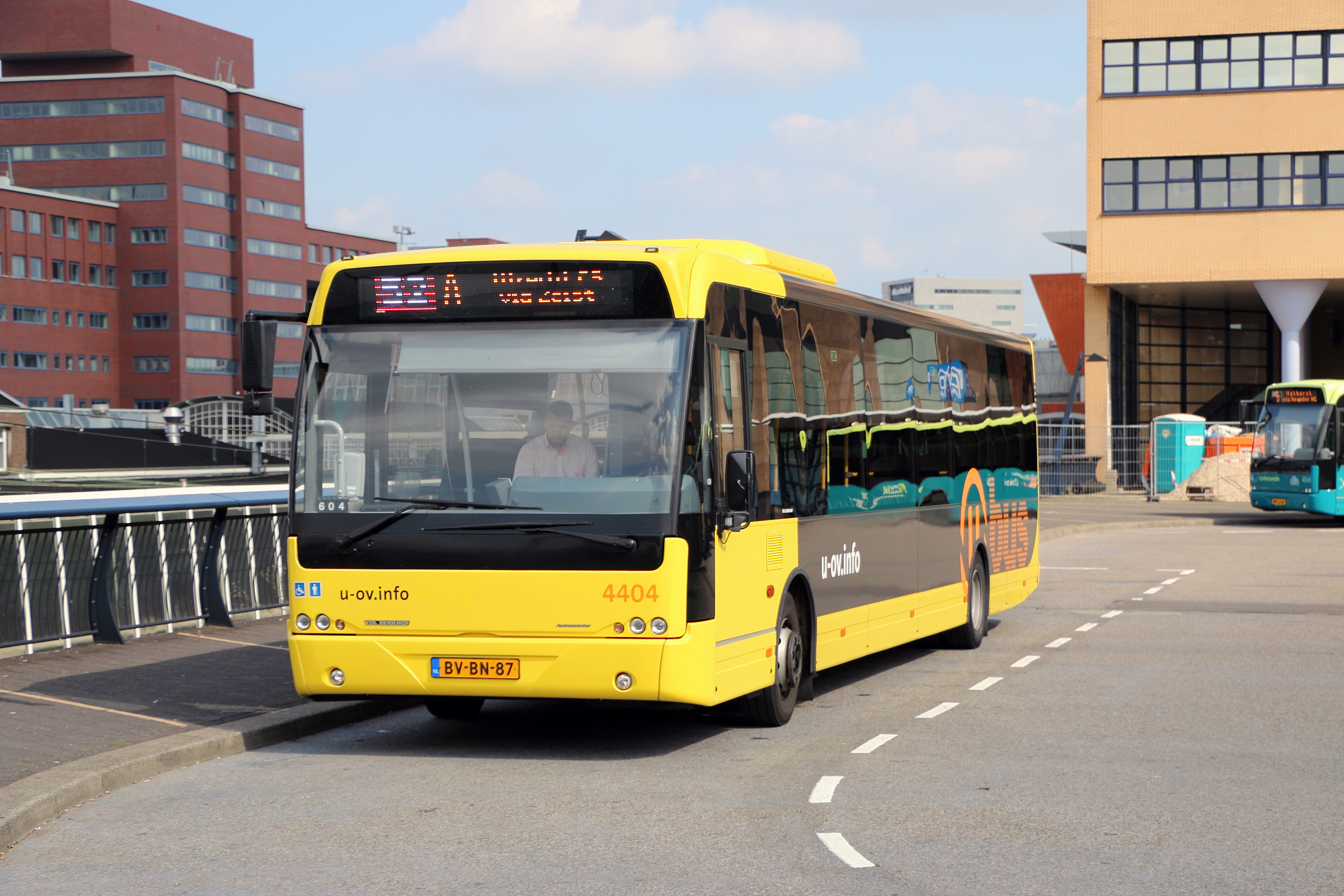 U-OV 4404, VDL Berkhof Ambassador 200, BV-BN-87, lijn 52, busbuffer station Amersfoort, 13 september 2014.